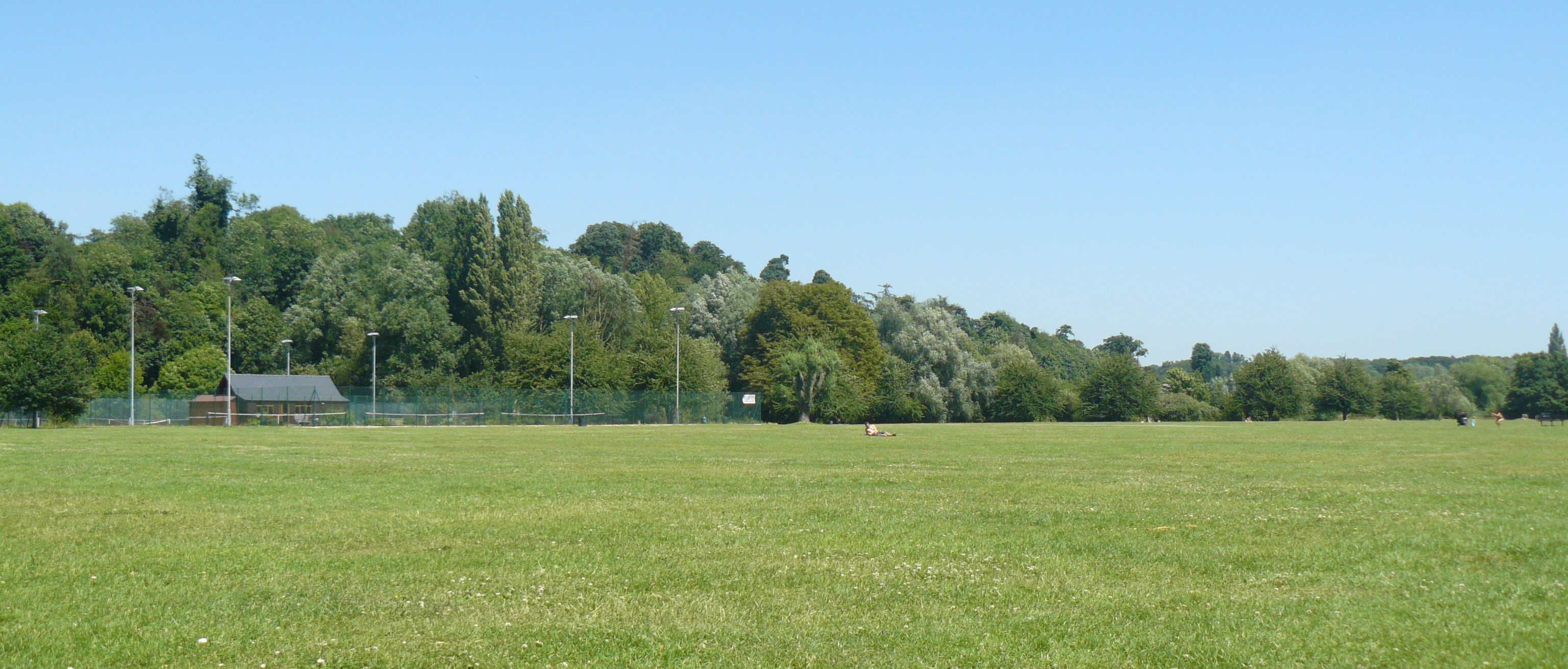 Hartham Common, July 08